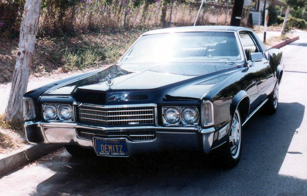 1970 Cadillac Eldorado of Lars Jacob's, as released by image creator Lars Jacob ProdPlace: Venice, California